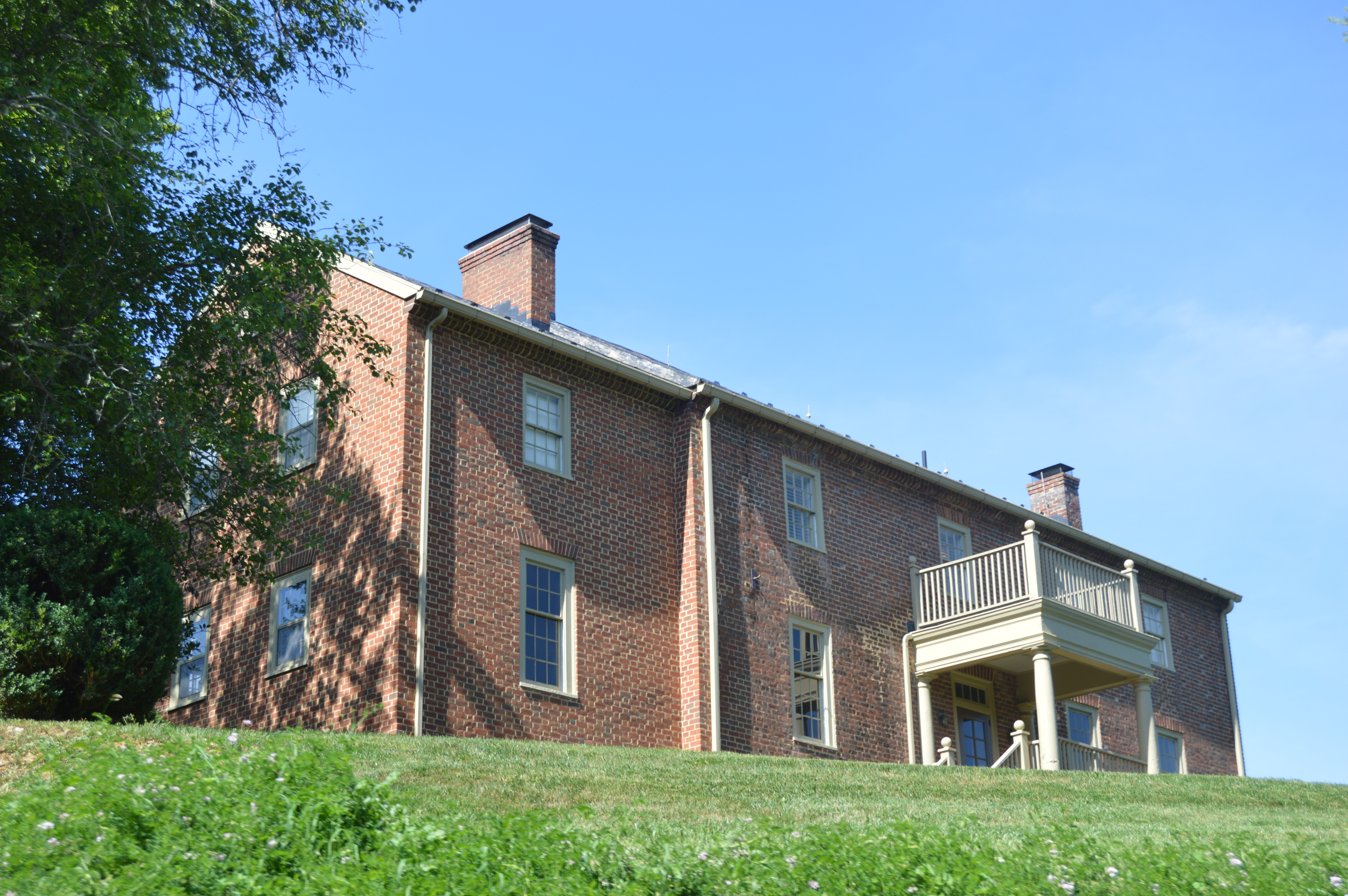 Front of the Anderson House, located on Lee Lane north of Haymakertown in Botetourt County, Virginia, United States. Built in 1828, it is listed on the National Register of Historic Places.